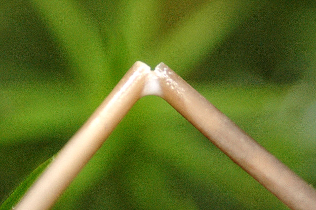 Mycena galopus from Commanster, Belgium. The determination of the species shown in this picture has been verified.